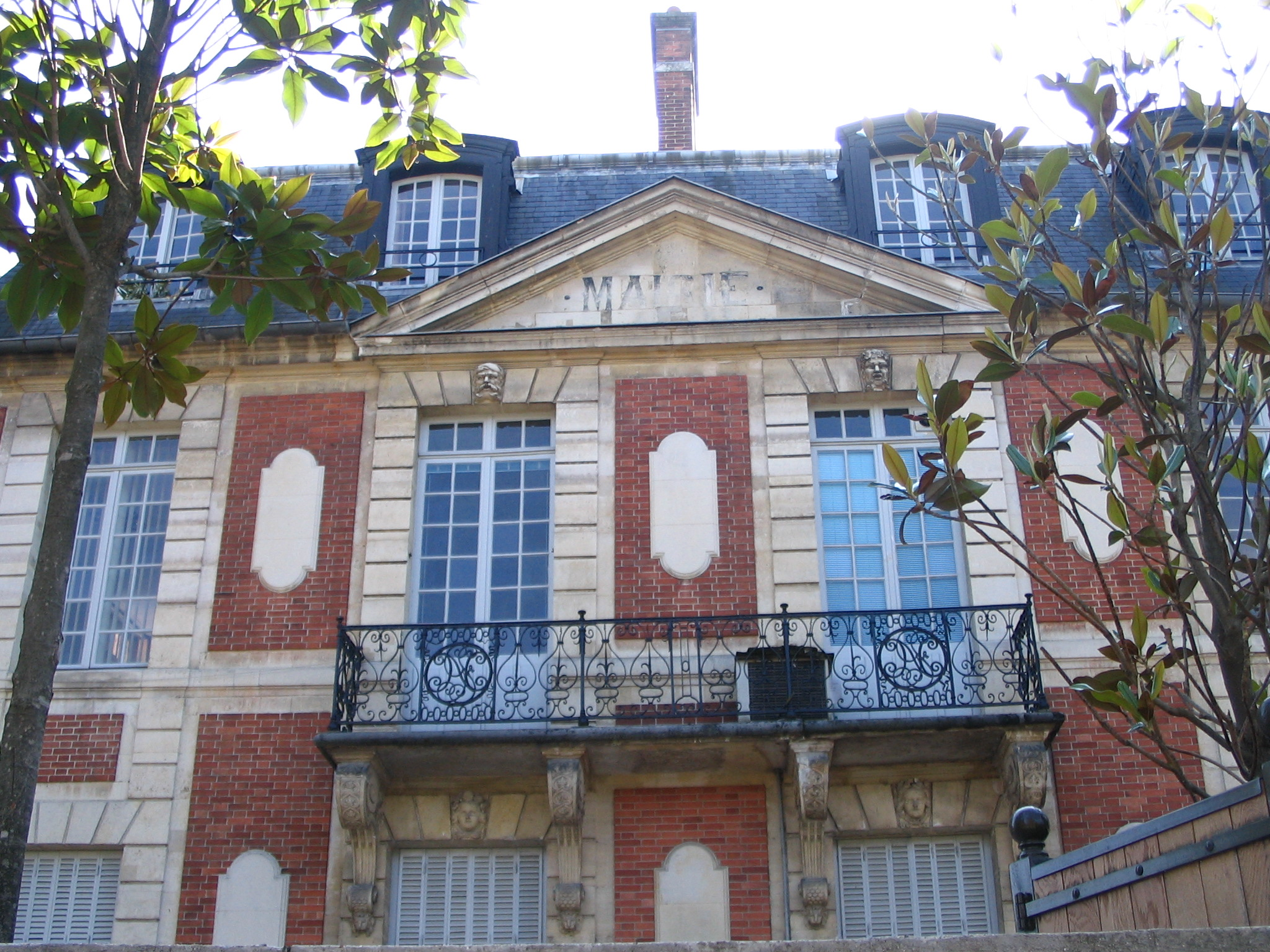 The town hall of Gournay-sur-Marne, Seine-Saint-Denis, France.